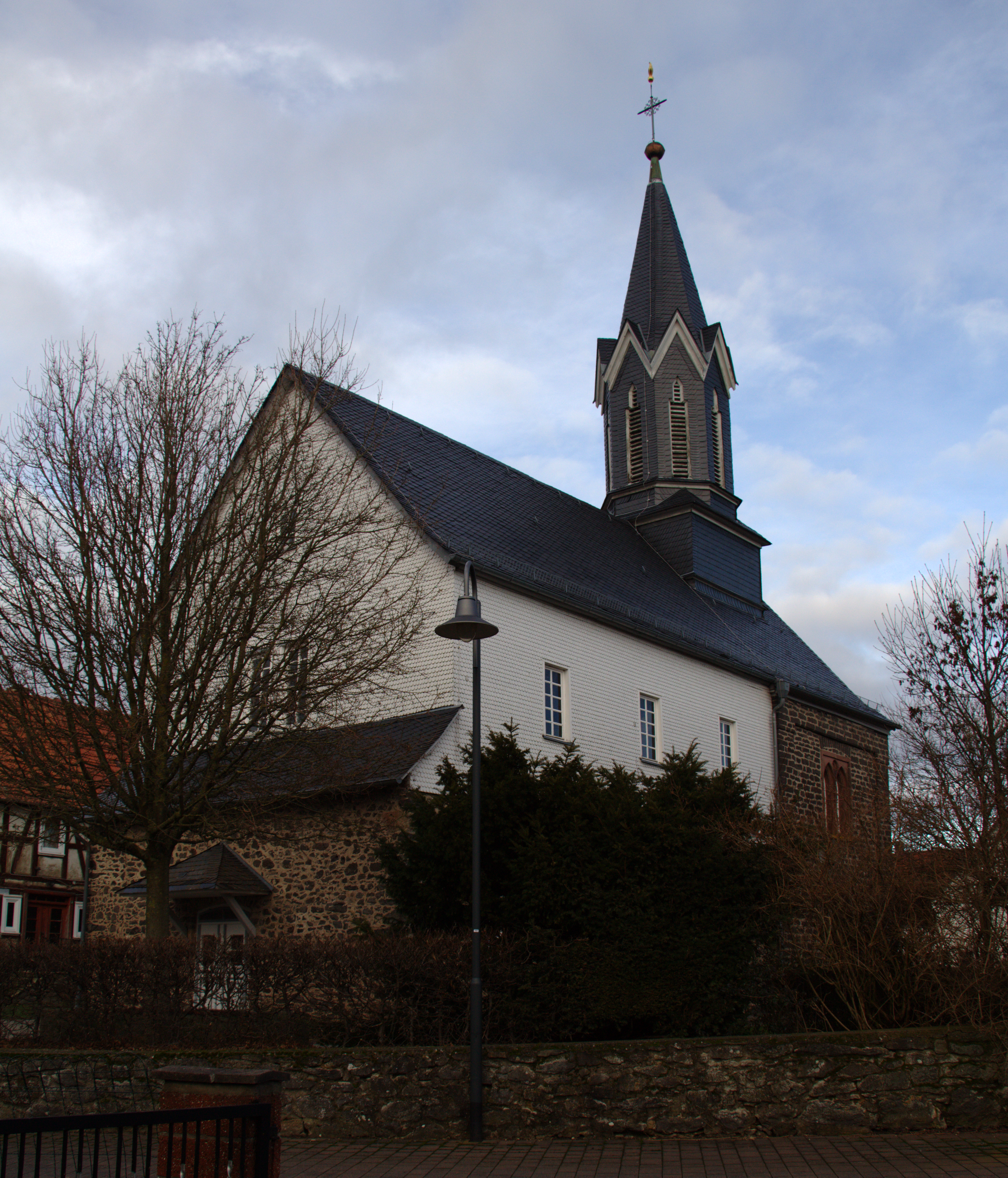 Church in Ober-Breidenbach / Romrod / Hesse / Germany